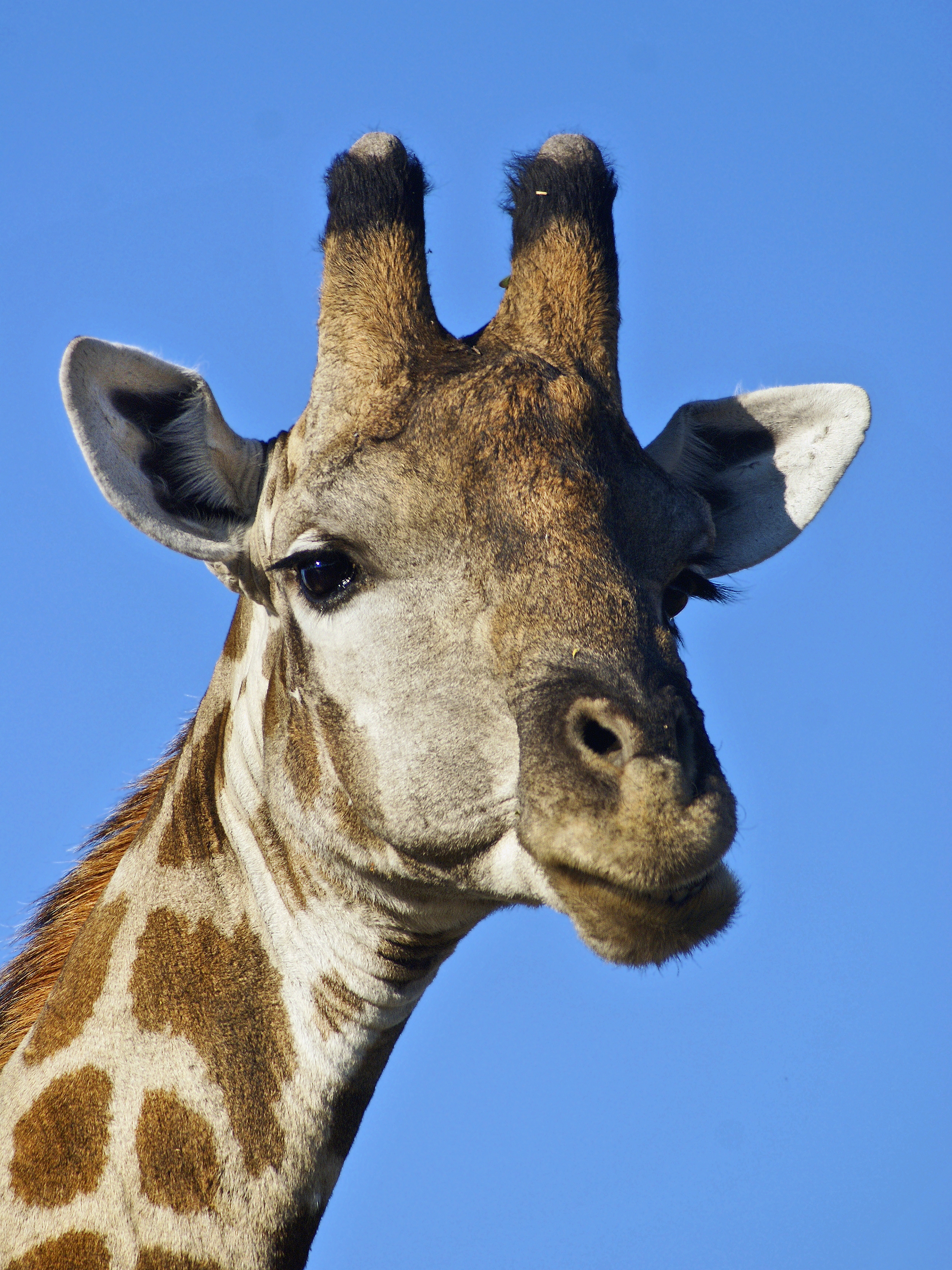 A bull Southern savannah giraffe close to Namutoni, Etosha, Namibia